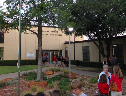 FWC